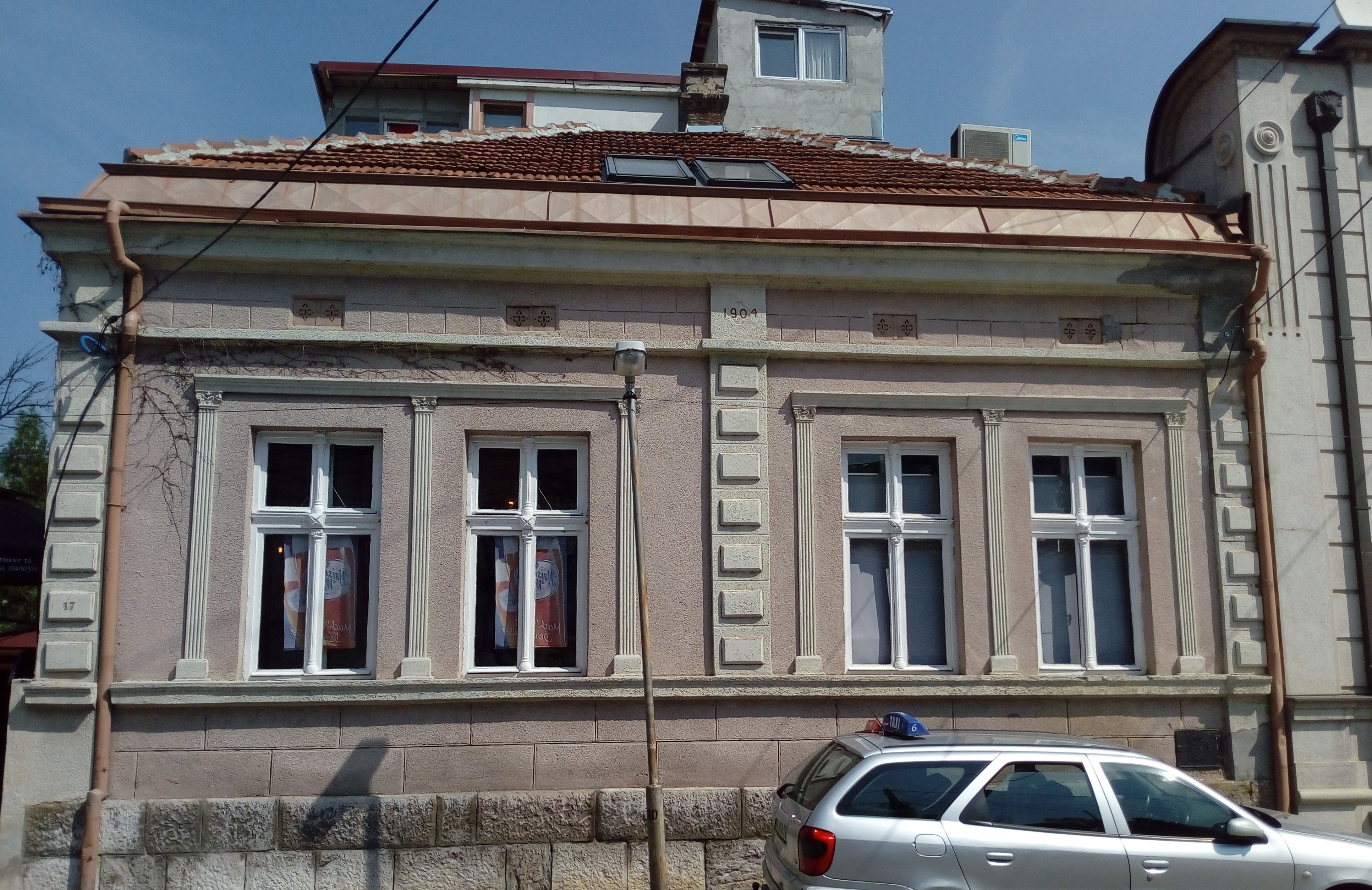 House of family Popović in Niš